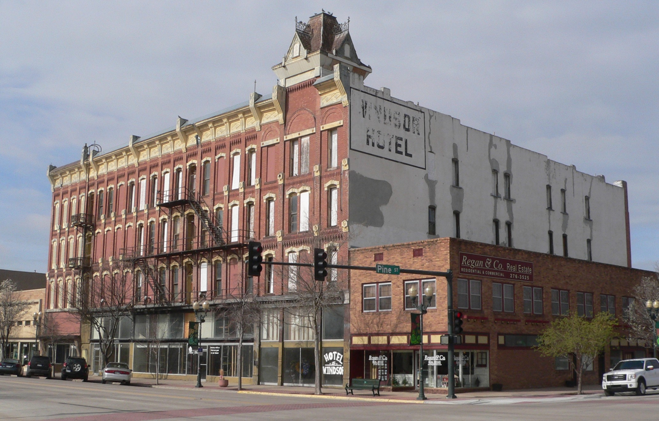 Windsor Hotel in Garden City, Kansas; seen from the northeast.